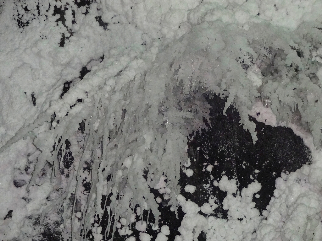 Salt crystals in the Salt Mine of Nemocón, Cundinamarca, Colombia